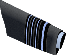 RAF Air Chief Marshal